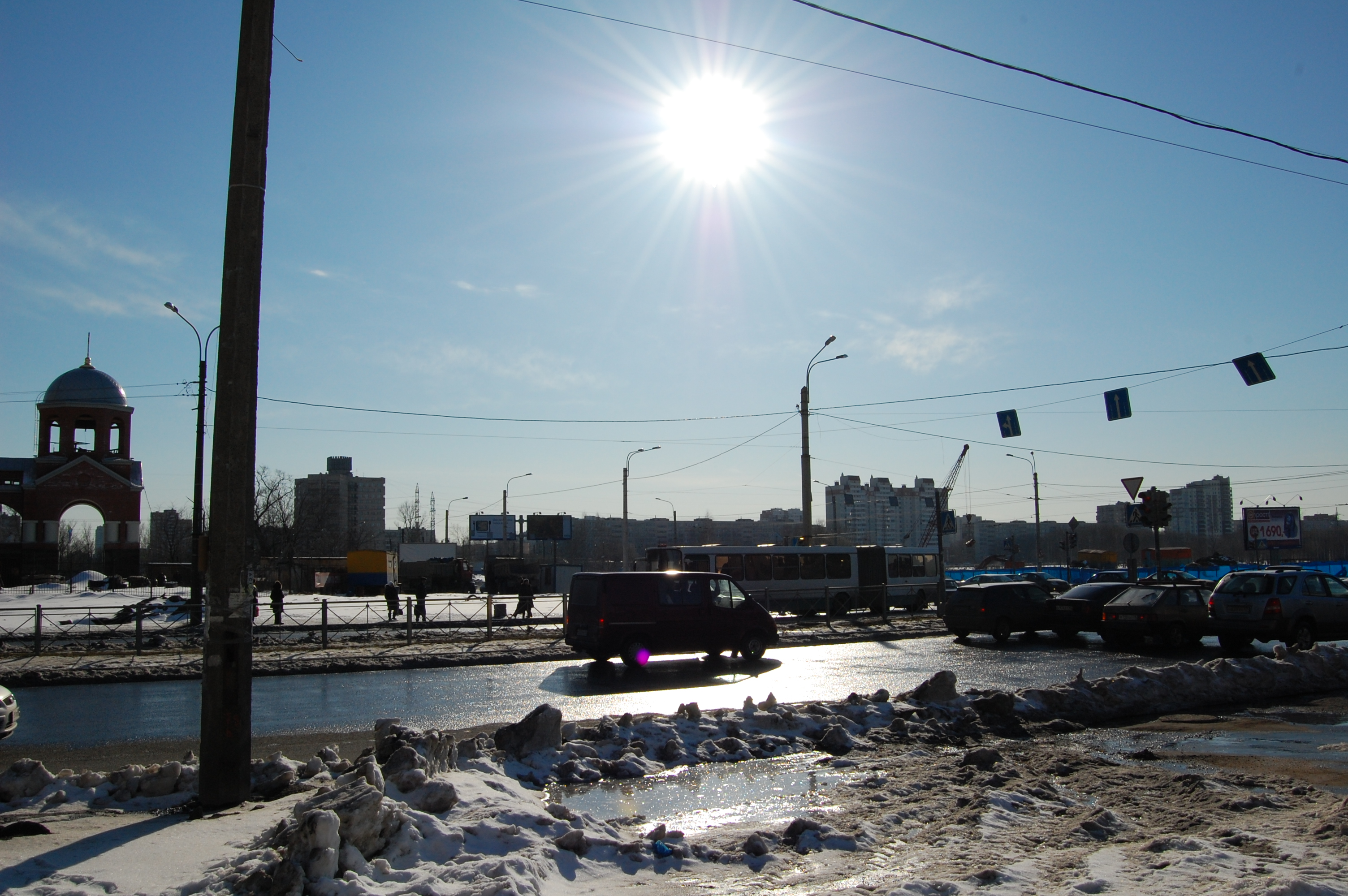 Lunacharskogo Avenue in Saint Petersburg (near crossing with Grazhdansky Avenue)